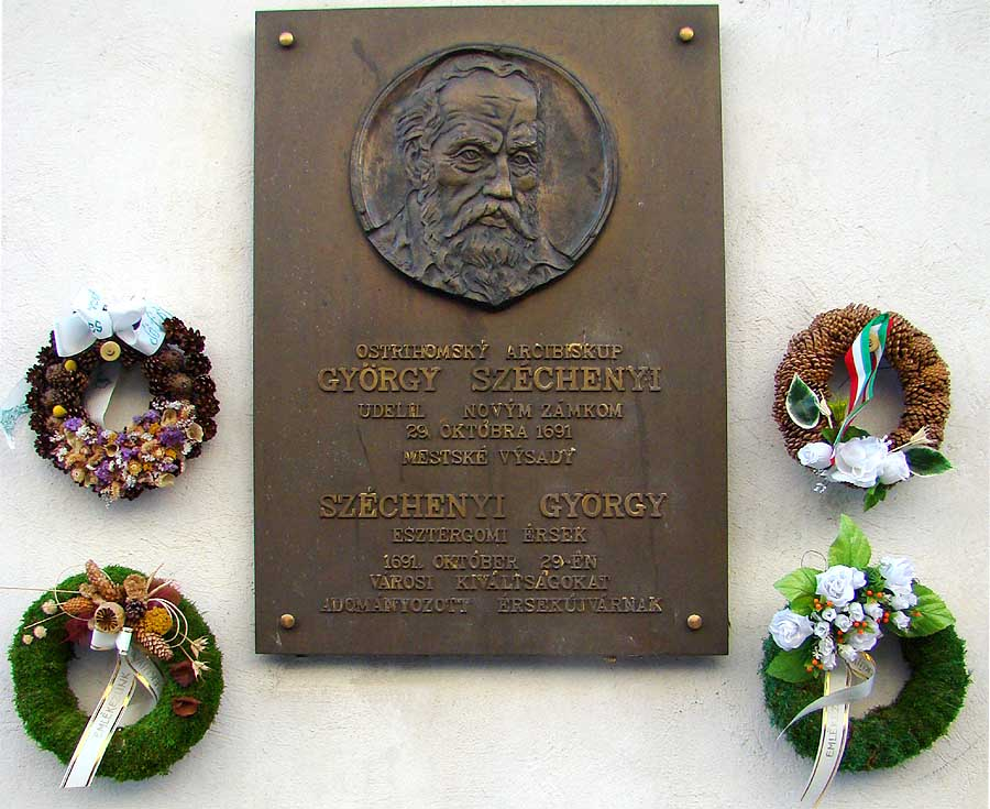 Memorial plaque of George Széchényi archbishop of Esztergom (who granted freedom of the city) on the wall of cloister in Nové Zámky